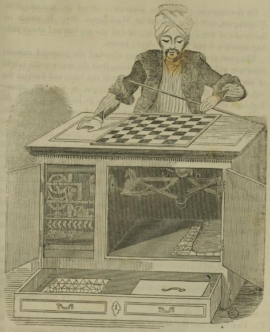 Book illustration, pen drawing